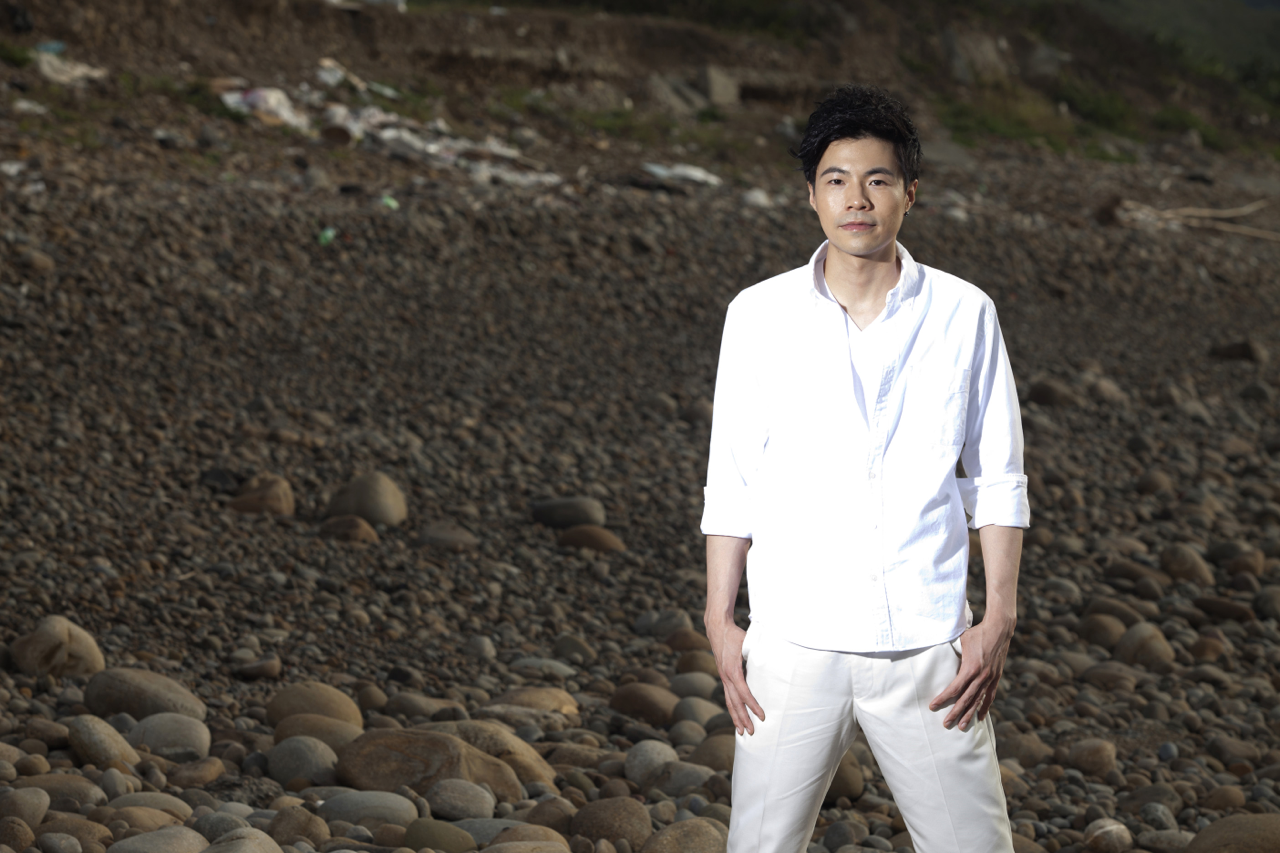 artist picture